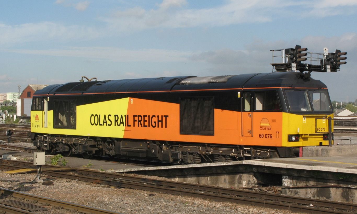 Colas Railfreight's 60076 prepares to leave the locomotive siding at the east end of Bristol Temple Meads to run light engine to Westbury where the company has its local base.}